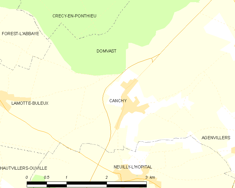 Map of French municipality Canchy